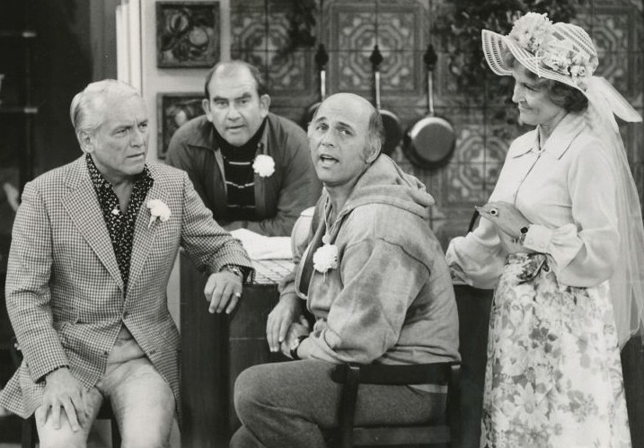 Publicity photo of Ted Knight, Ed Asner, Gavin MacLeod and Betty White from The Mary Tyler Moore Show. In this episode, Ted and Georgette decide to be married while at Mary's dinner party, and the wedding is arranged immediately. Ted and friends wait in Mary's kitchen for the bride to be ready.